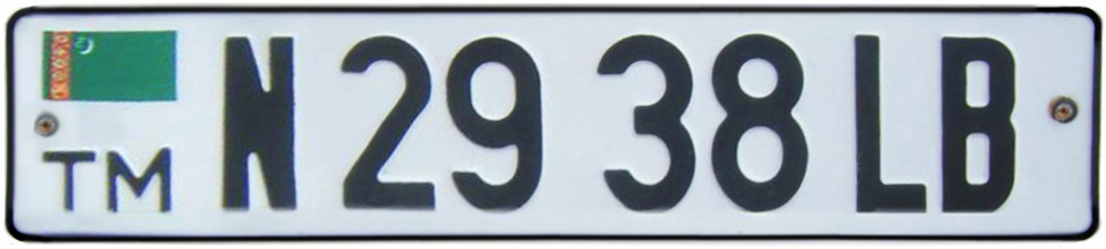 License plate from Turkmenistan, LB = Lebap Province